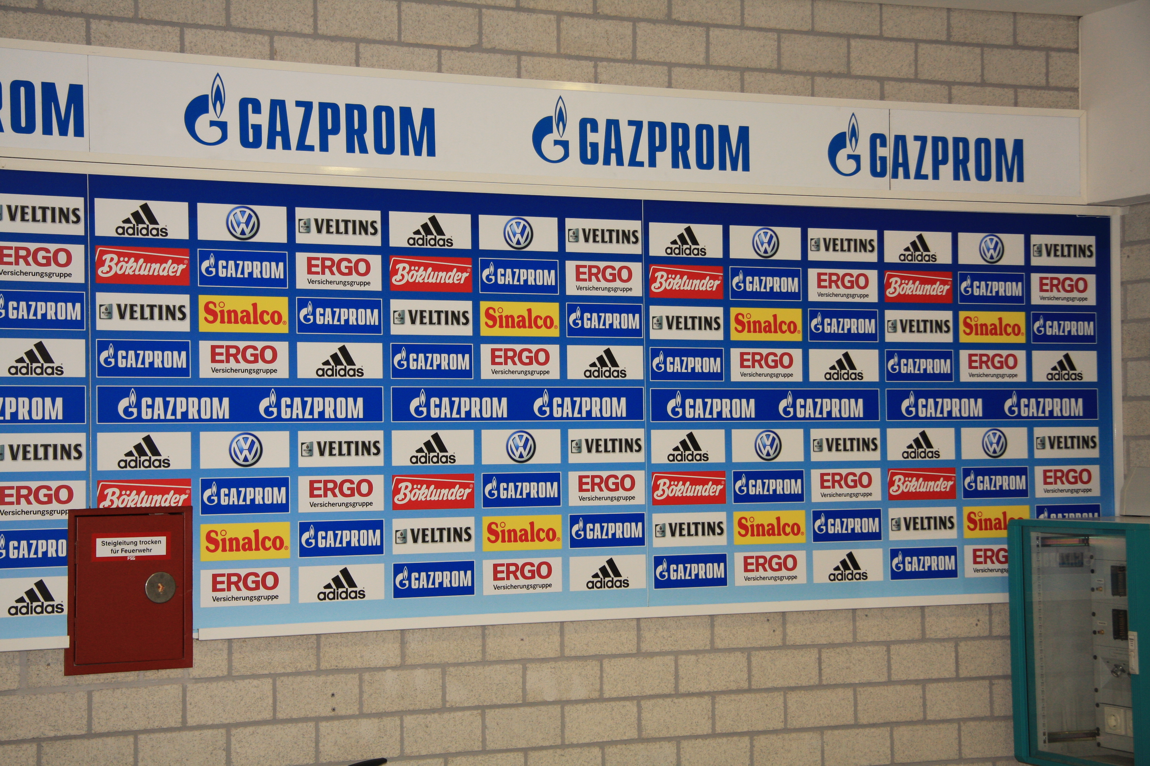 Arena AufSchalke